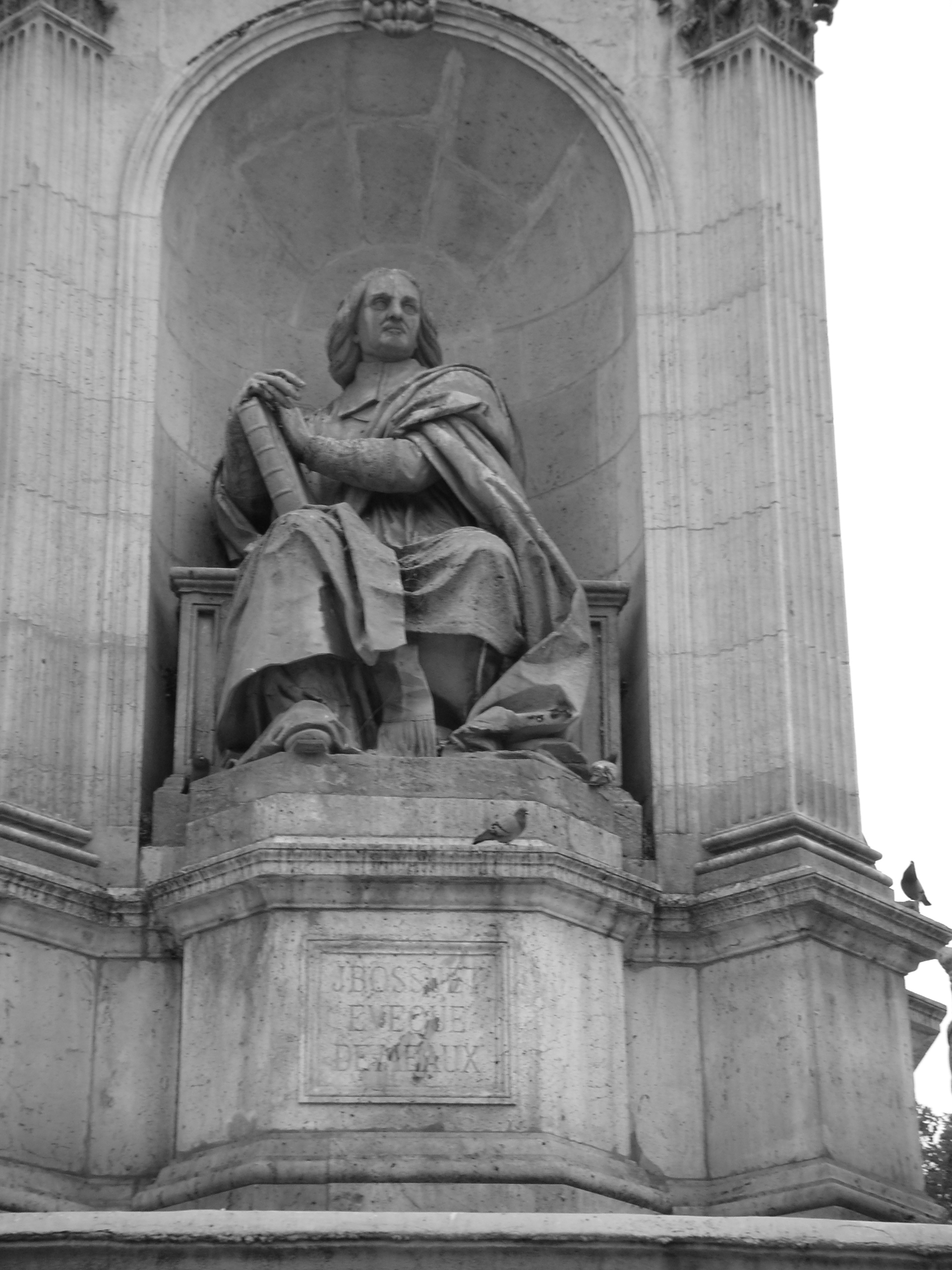 Bossuet by Jean-Jacques Feuchère. Fountain of the Sacred Orators, Place Saint-Sulpice, Paris (6th arrondissement), France.